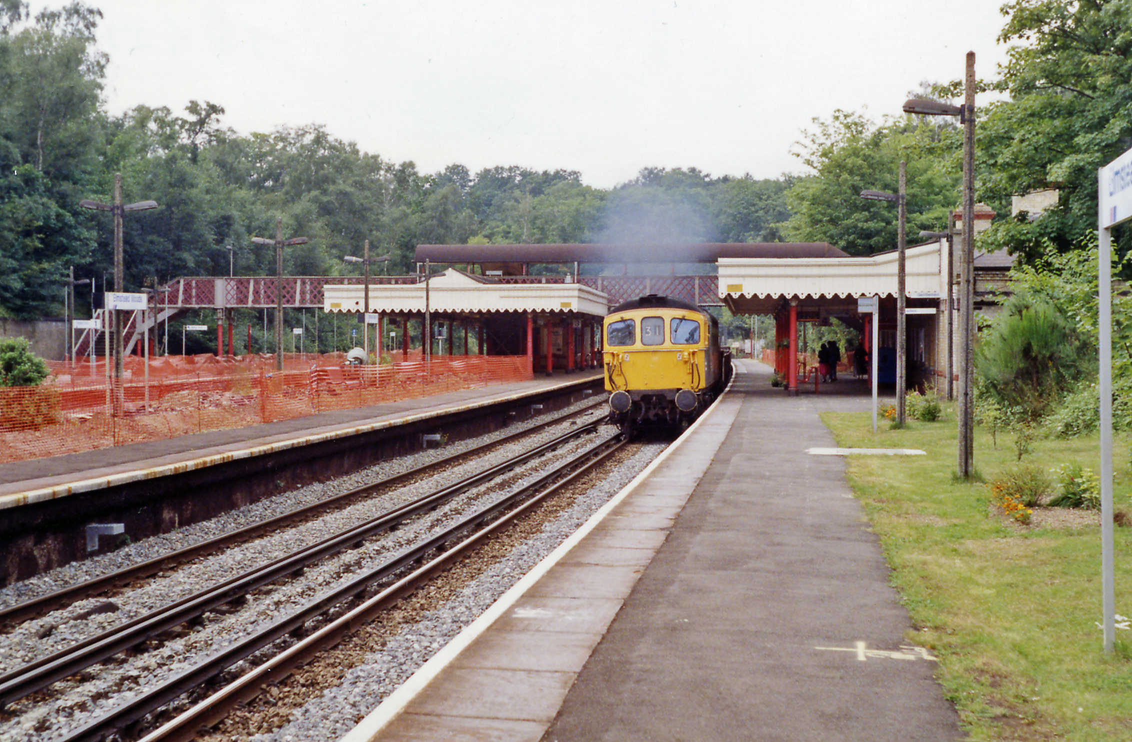 Elmstead Woods station, 1991. View NW, towards London: ex-SE&CR Charing Cross/Cannon Street - Orpington, Sevenoaks, Tonbridge, Ashford etc.. Work is evidently under way on the station and a Class 33 Diesel approaches on a Down Engineer's train.